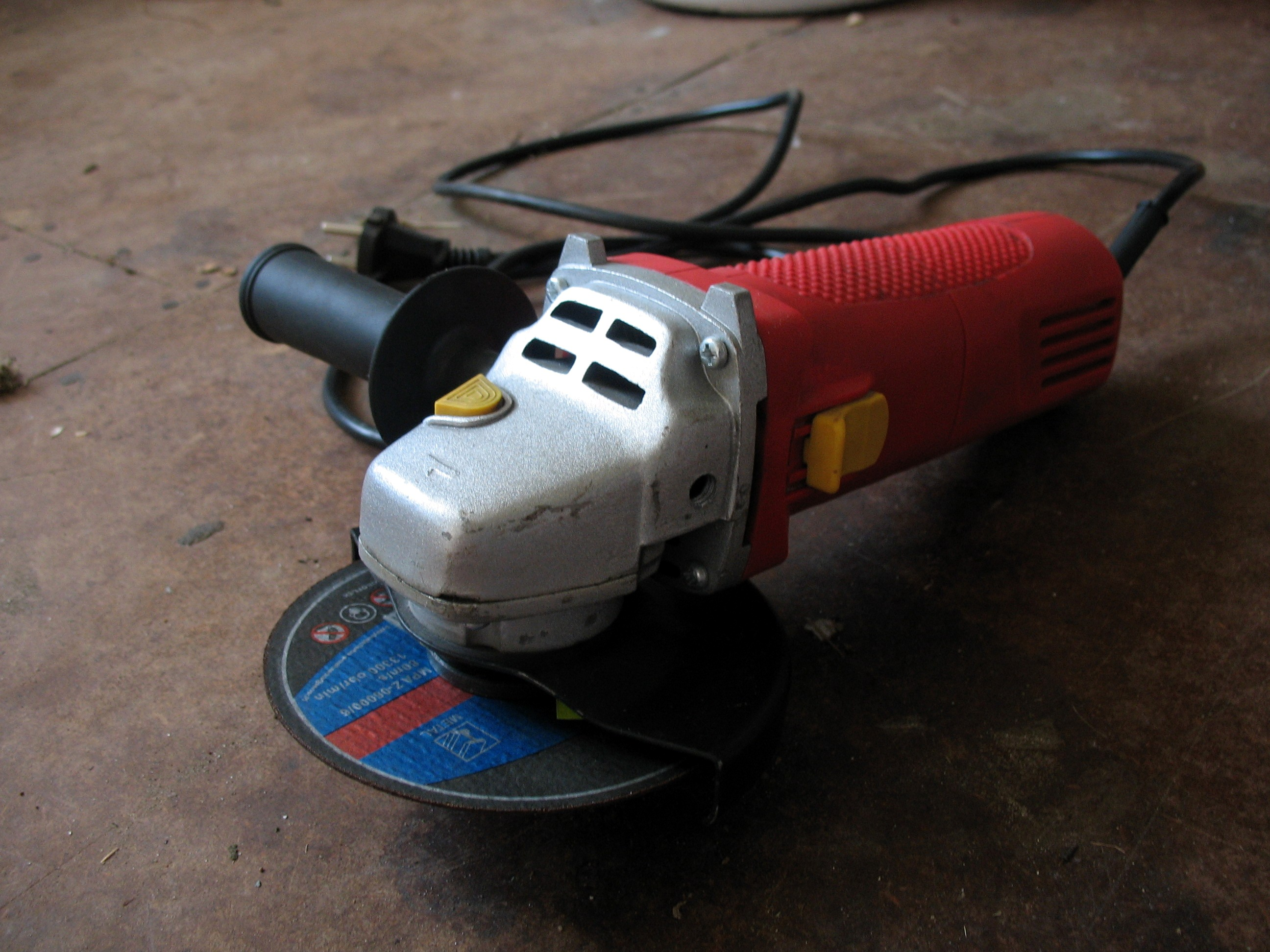 Maxwerx MX600 angle grinder